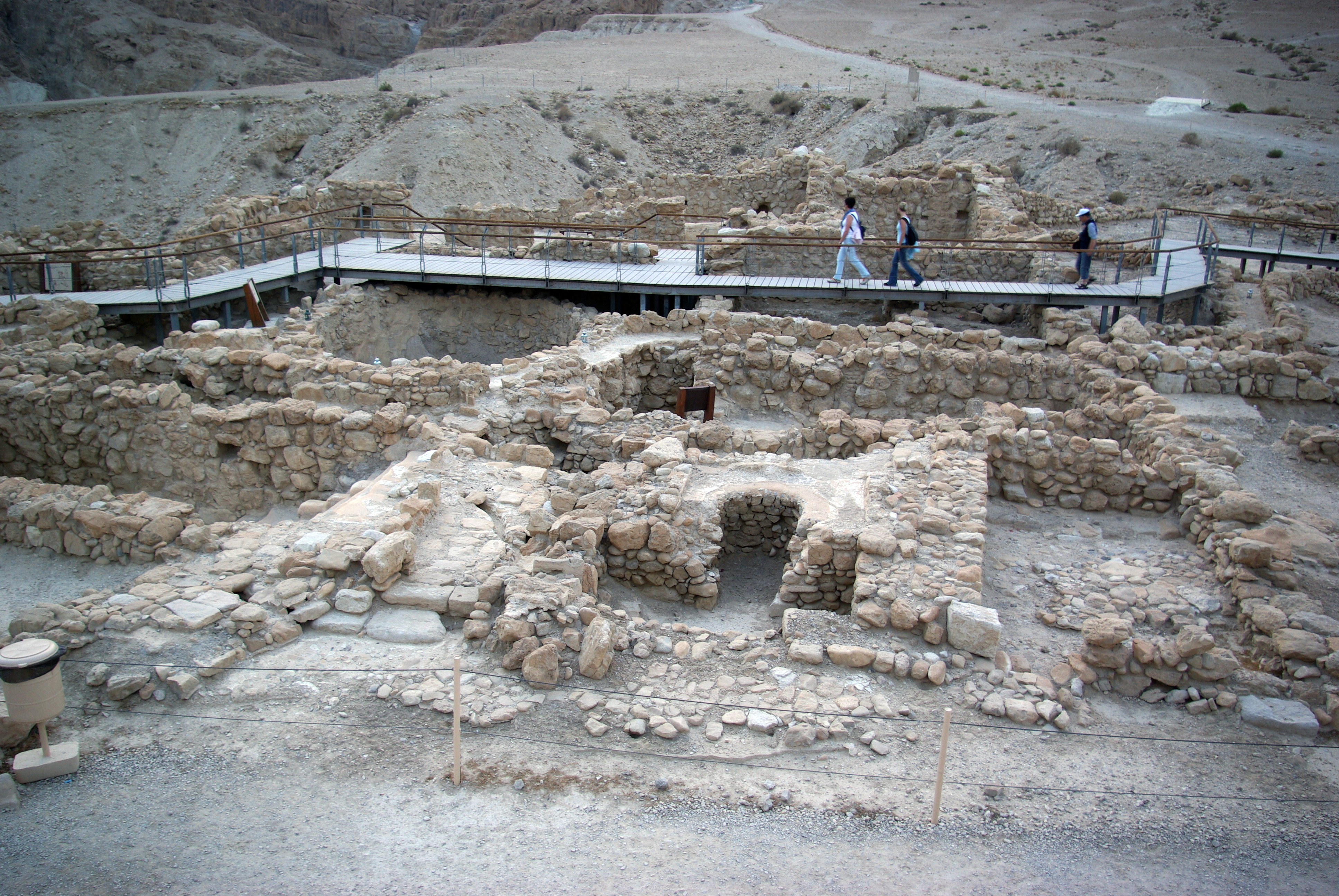 Qumran